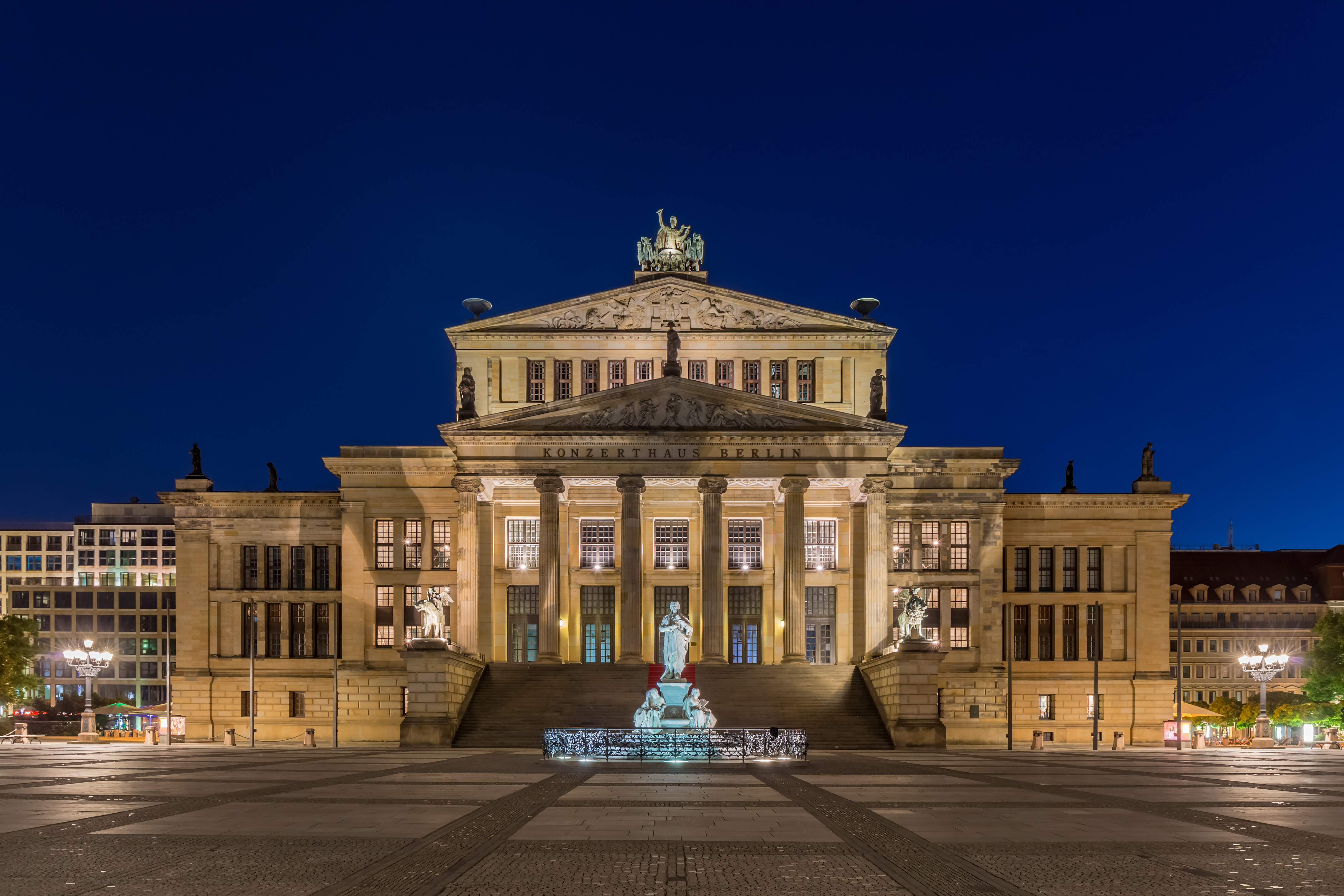 The concert hall is a central building on the Gendarmenmarkt. The classical building is one of the major works of the architect Karl Friedrich Schinkel. It was opened in 1821 as the Royal Playhouse and was from 1919 to 1945 Prussian State Theatre. In 1994, it was named "Konzerthaus Berlin".